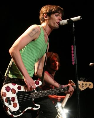 Tyson Ritter in Seattle, Washington, USA on July 1, 2006